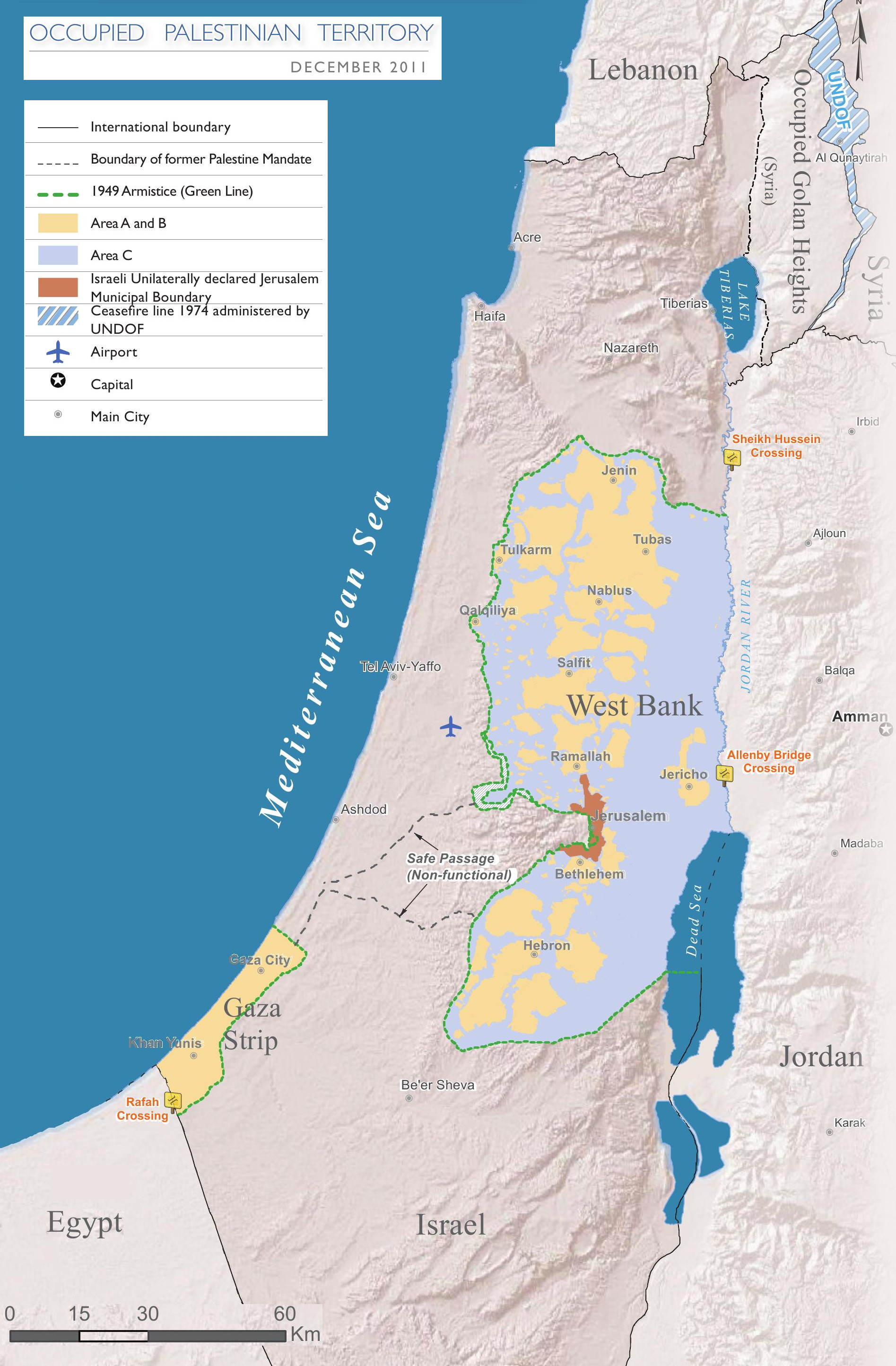 Map of the Occupied Palestinian Territories (West Bank and Gaza Strip), marked by the Green Line. Based on Reference Map: occupied Palestinian territory: Overview Map, as of December 2011. Published by United Nations Office for the Coordination of Humanitarian Affairs (OCHAoPt), 25 January 2012